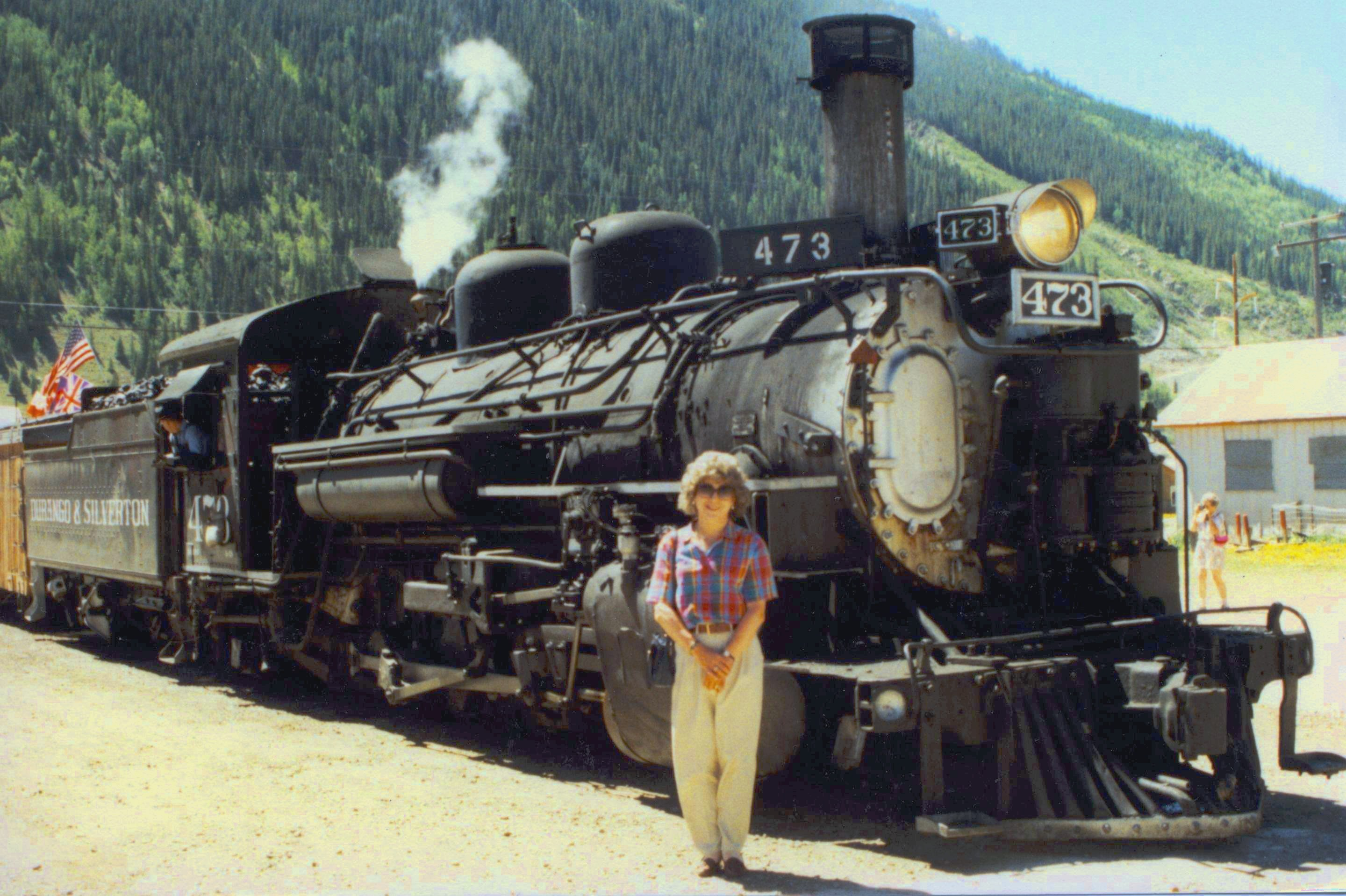 Durango & Silverton 470 Class 2-8-2 loco No. 473 on arrival at Silverton from Durango Colorado